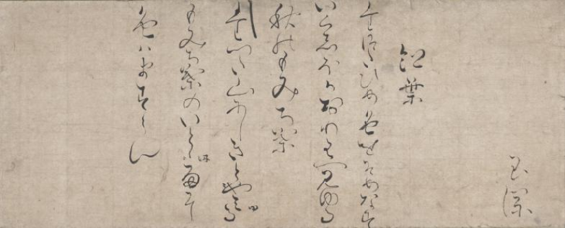 Ink on paper.